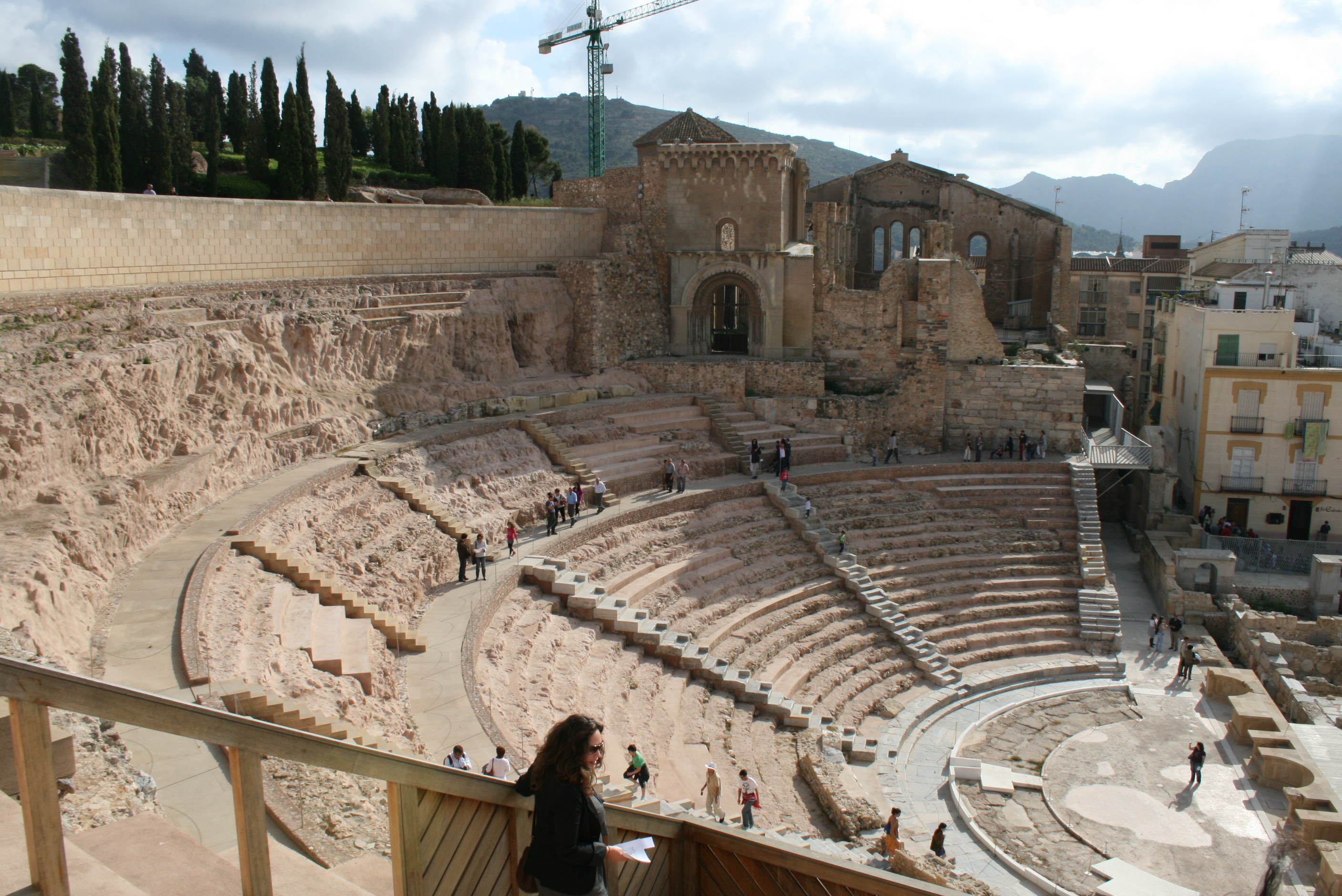 Roman teather, Cartagena, Murcia